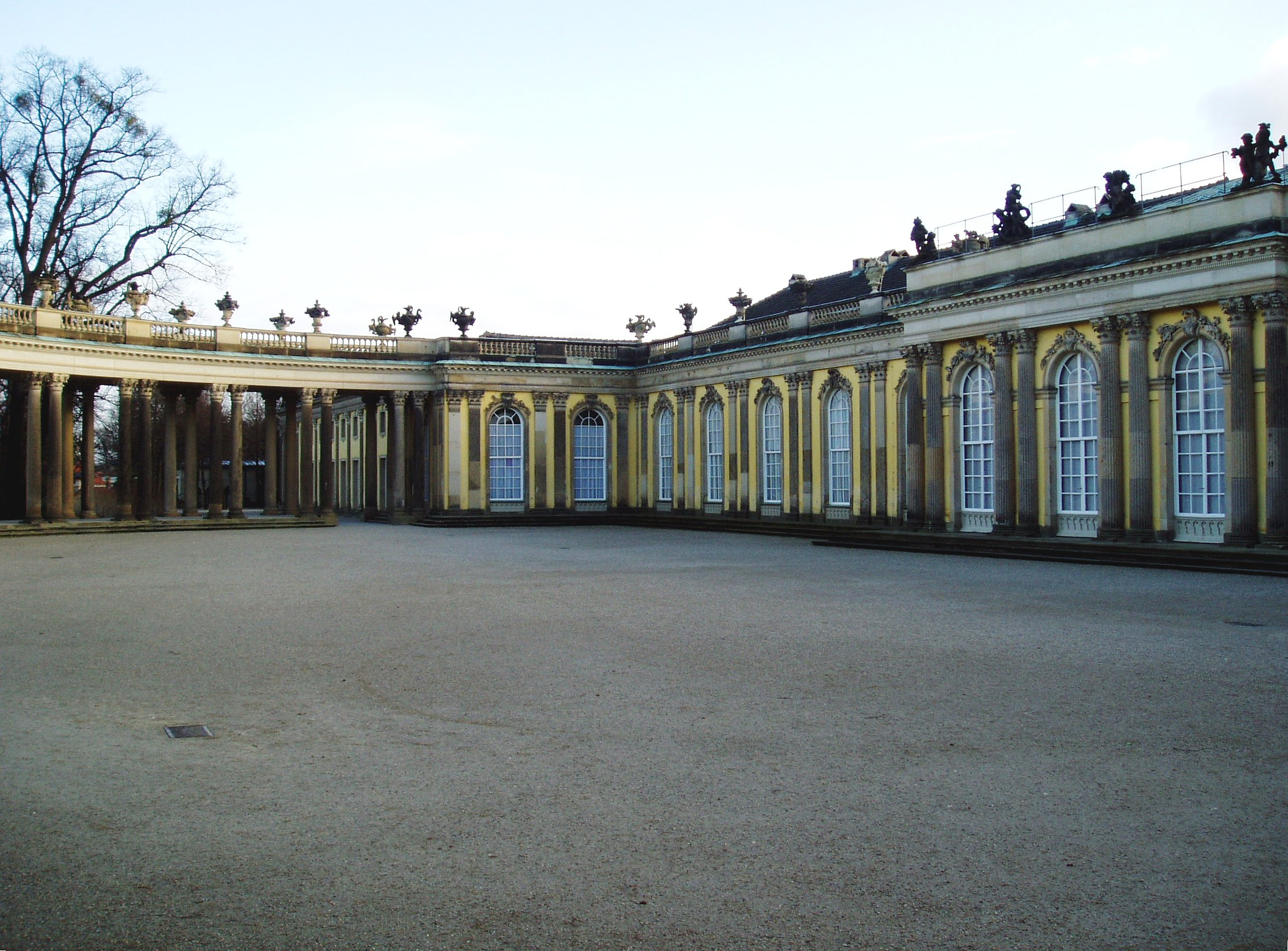 "Ehrenhof" at Sanssouci, Potsdam, Germany